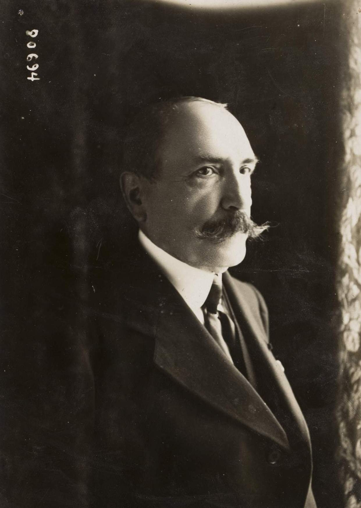 The famous painter Antonin Mercié, who just died (thus dating the photo to 1916).